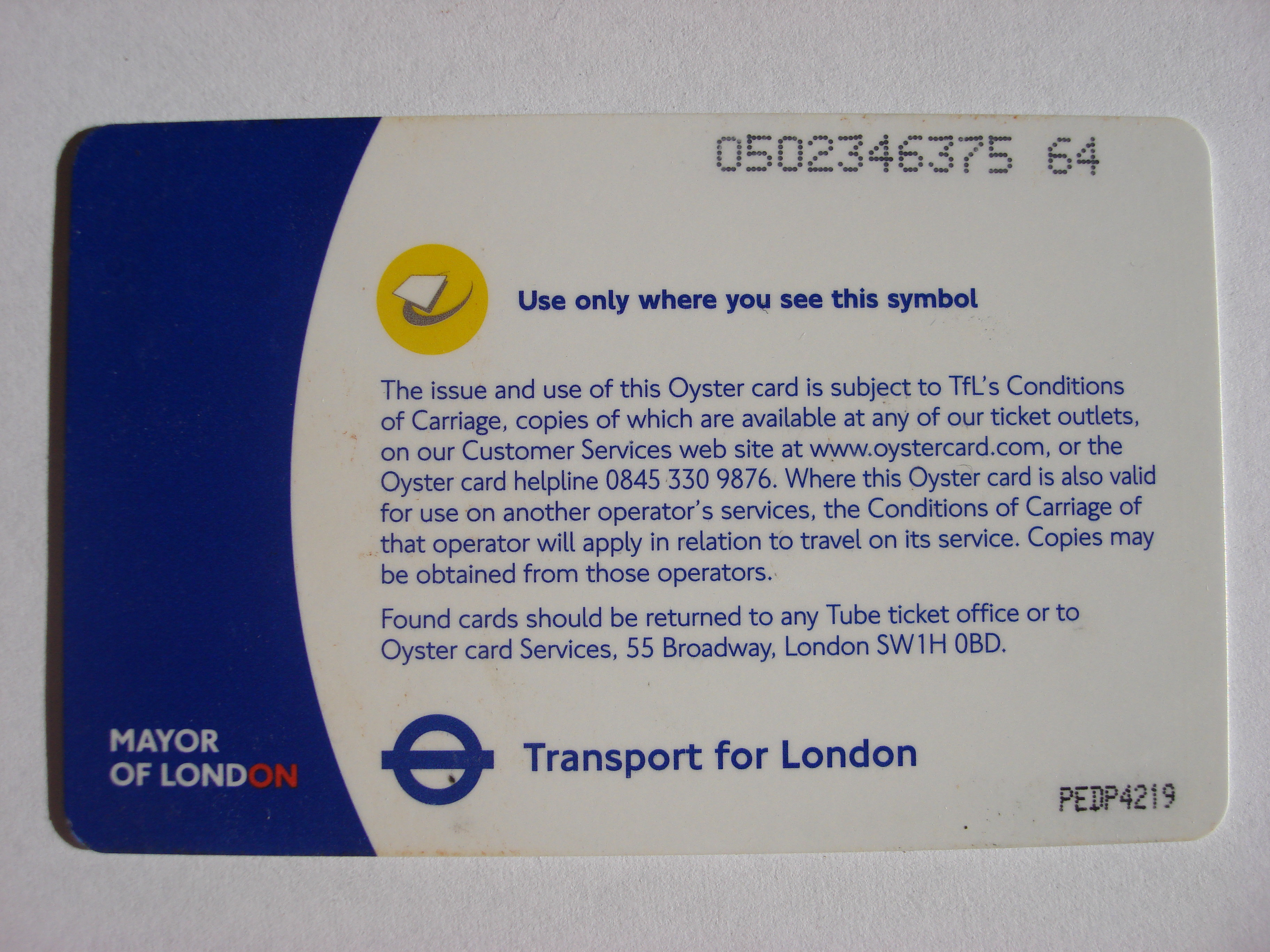 The back of A Transport for London, Oyster smart card